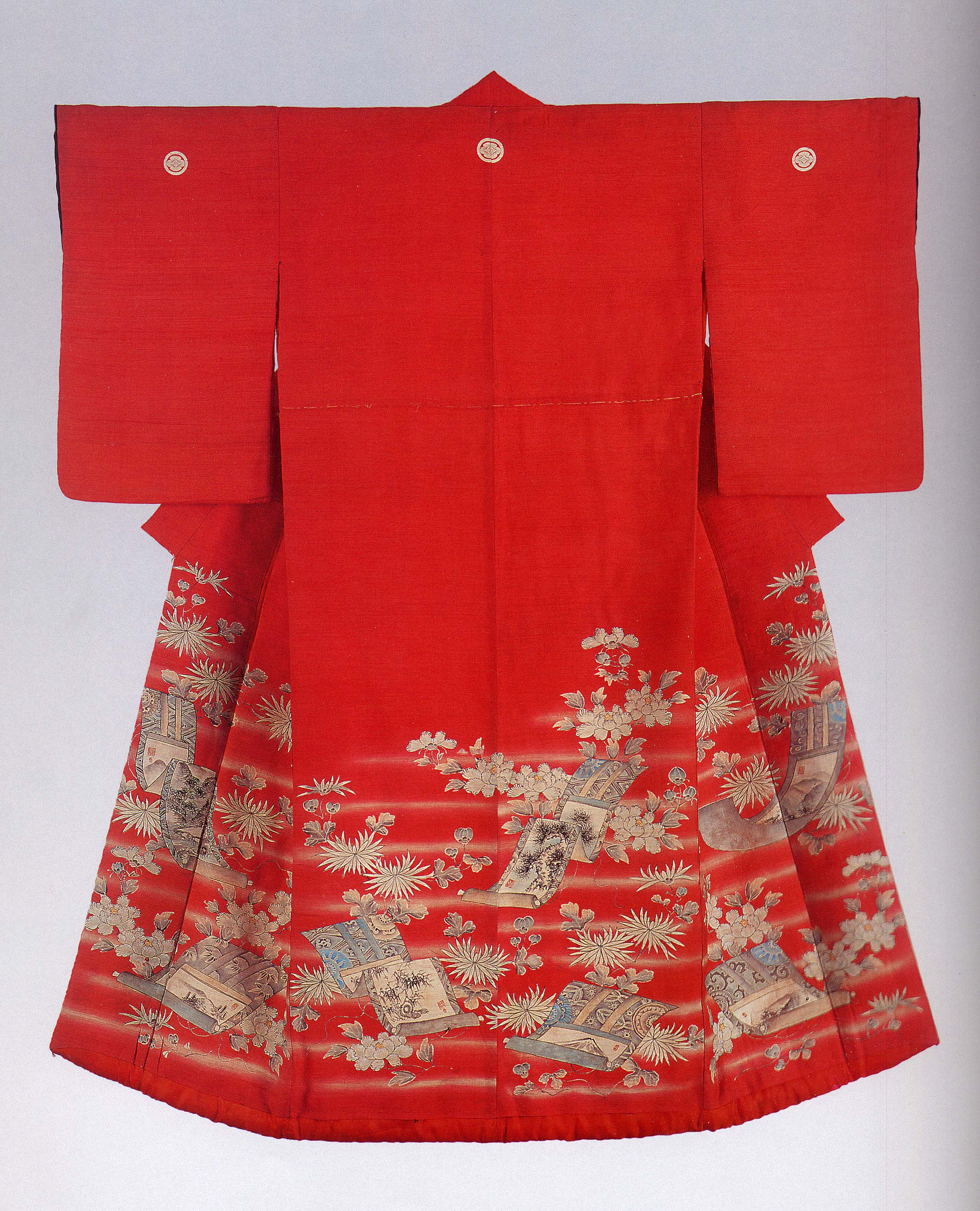 Outer Kimono for a Woman (Uchikake) Motif: Hanging scrolls